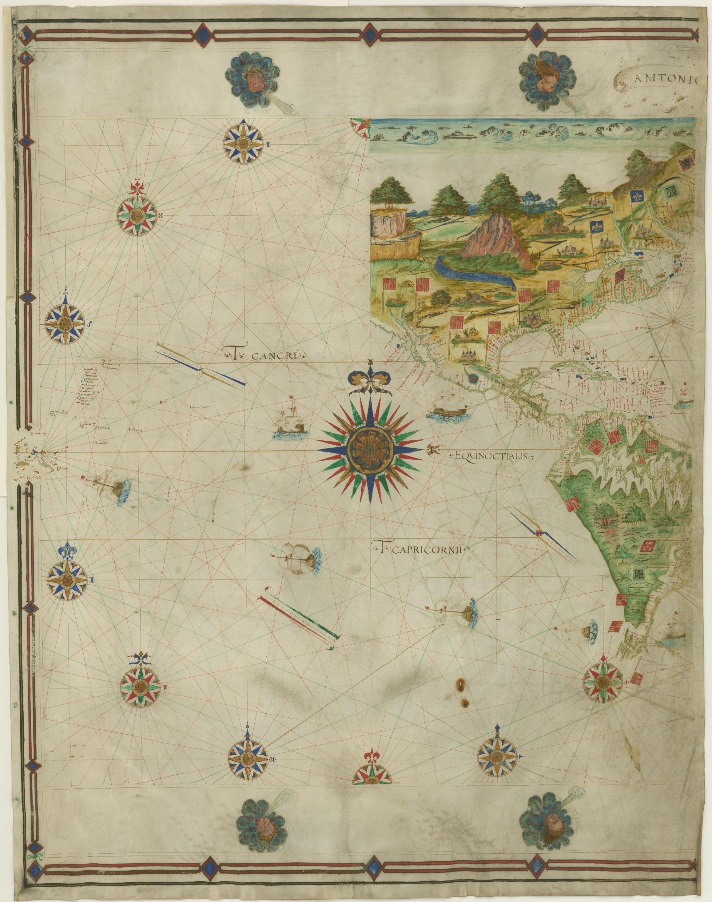 Early representation of Newfoundland, Lower California, the Amazon, and the Ladrones. "This is one of the earliest maps to show the results of Spanish exploration of the interior of North and South America. On the continent of South America is recorded Francisco de Orellana's great trek between 1539 and 1542. Starting at Quito, Orellana traveled across the Andes to the Amazon and down that great river to its mouth. Originally in three parts, this map has been attributed to António Pereira, a Portuguese seaman. The other two sections have not, as yet, been found." Description from Danforth, Susan., and William Hardy McNeill. Encountering the New World, 1493 to 1800: Catalogue of an Exhibition. Providence, RI: John Carter Brown Library, 1991, 17.